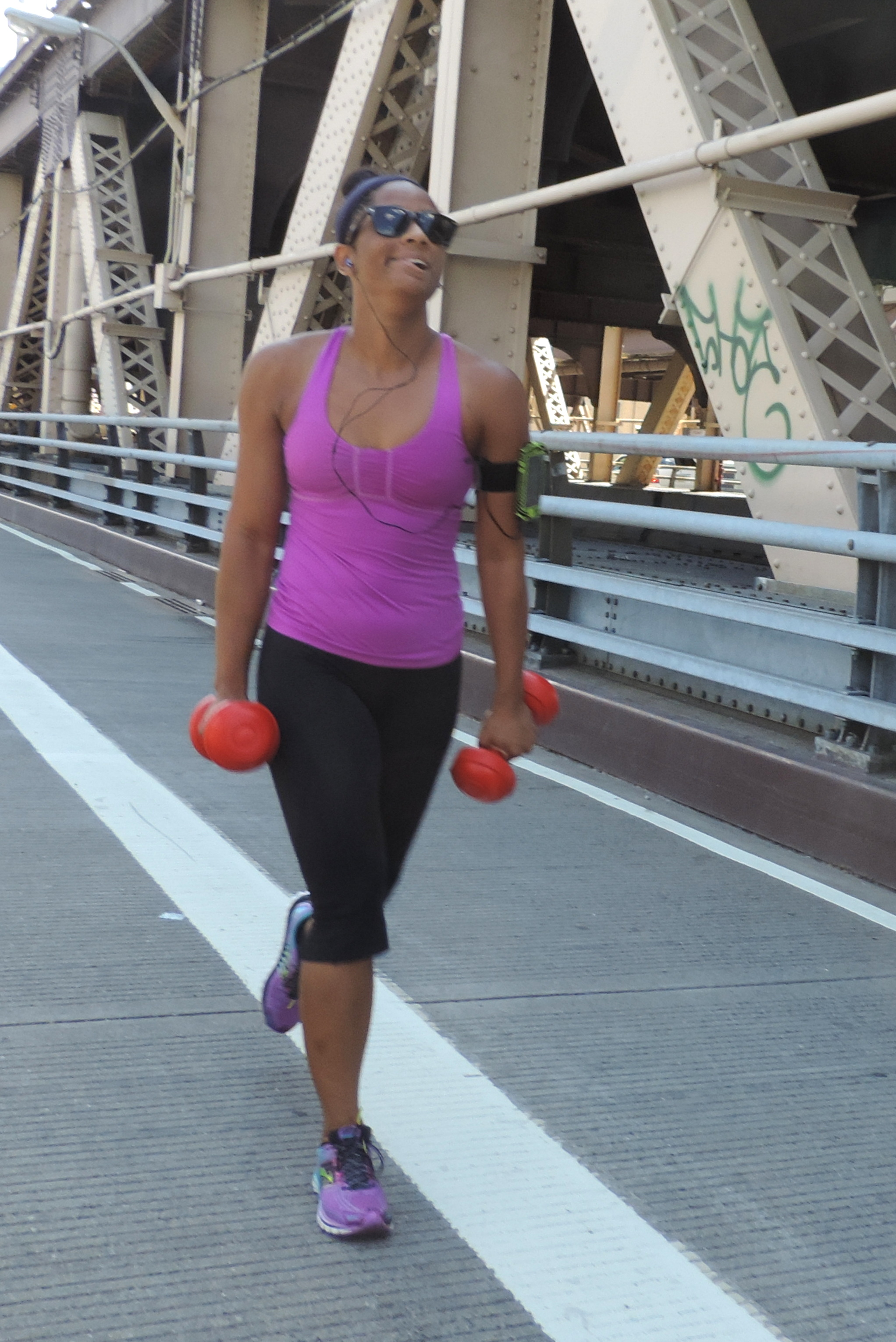 Looking southeast at walker on a mostly sunny late morning.